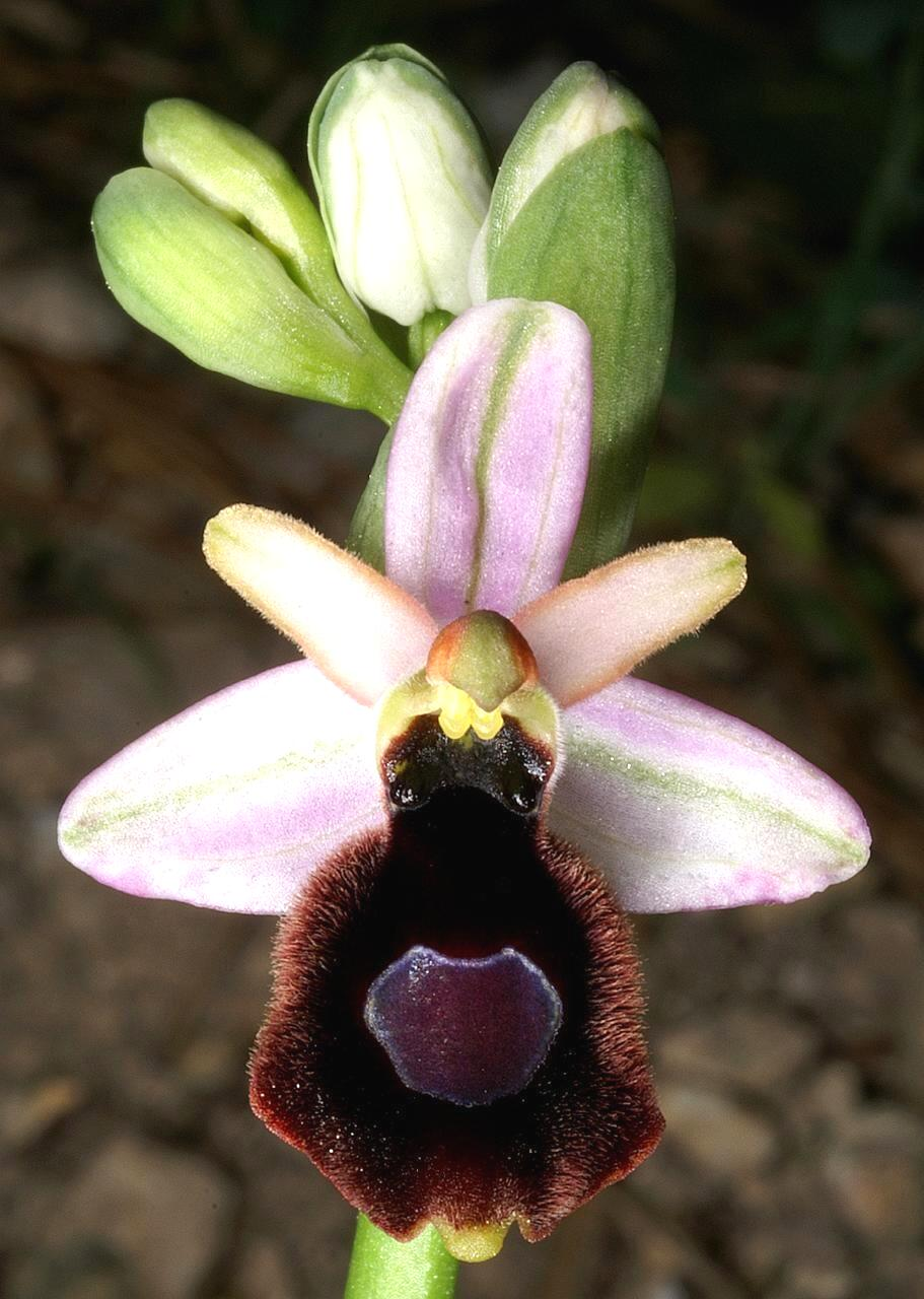 Ophrys balearica